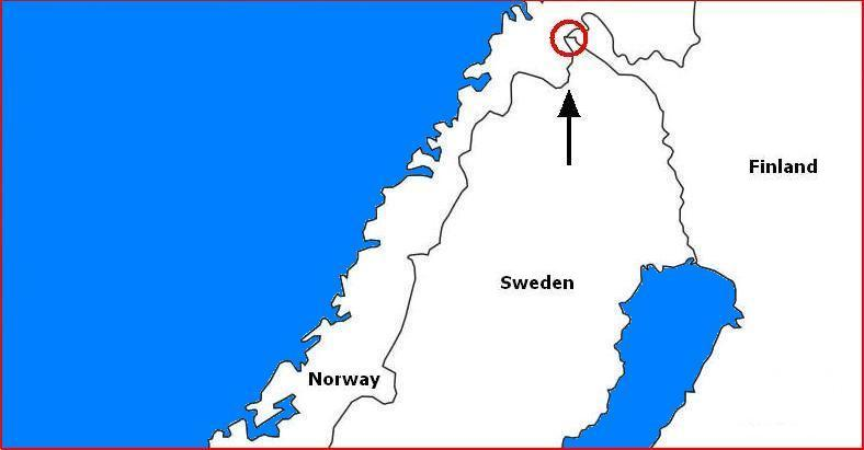 A blank map of Upper Scandinavia.